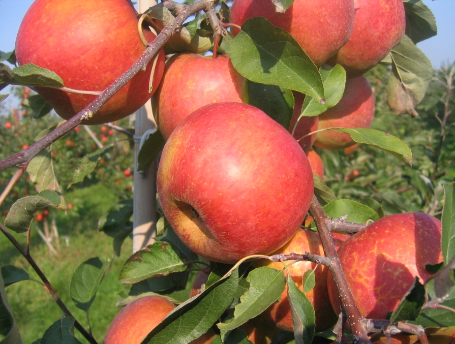 Fruits of apple cultivar -Rubin